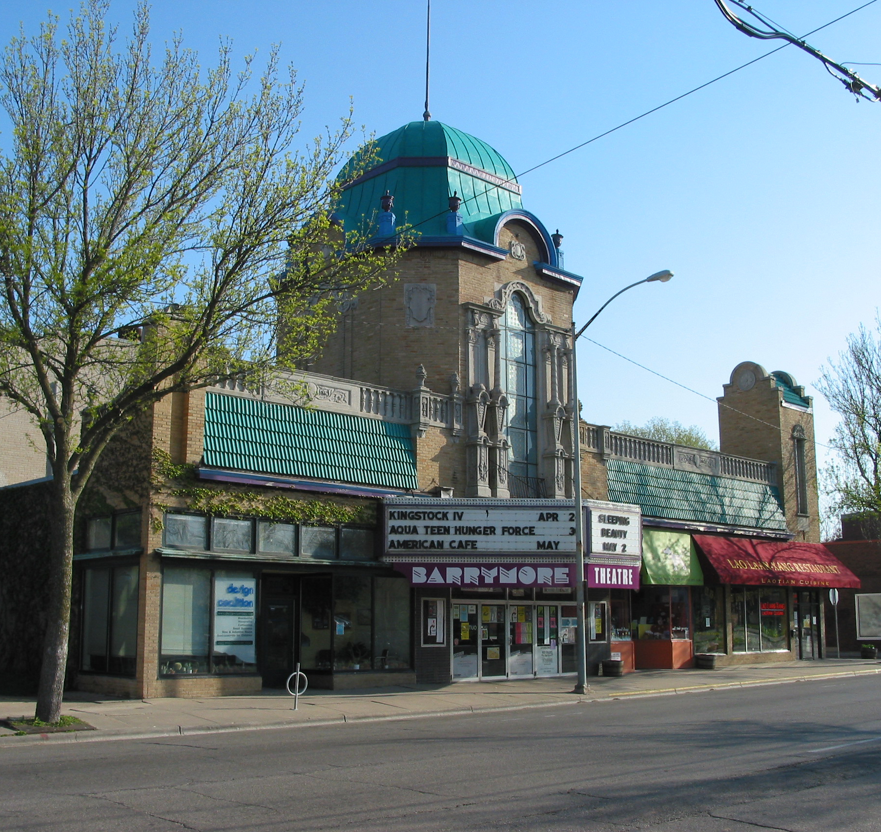 The Barrymore Theatre, Madison, Wisconsin (2010 photo)